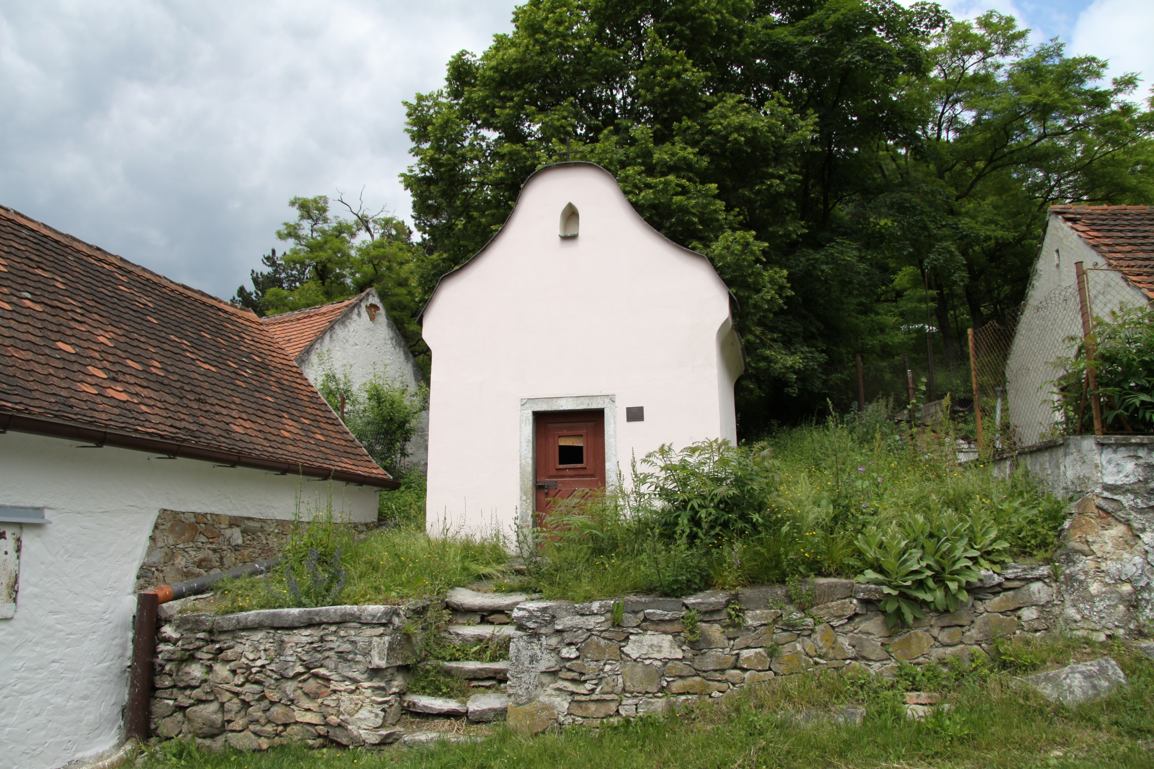 Chapel in Hejná village, Klatovy District, Czech Republic This photograph was taken within the scope of the 'Czech Municipalities Photographs' grant.